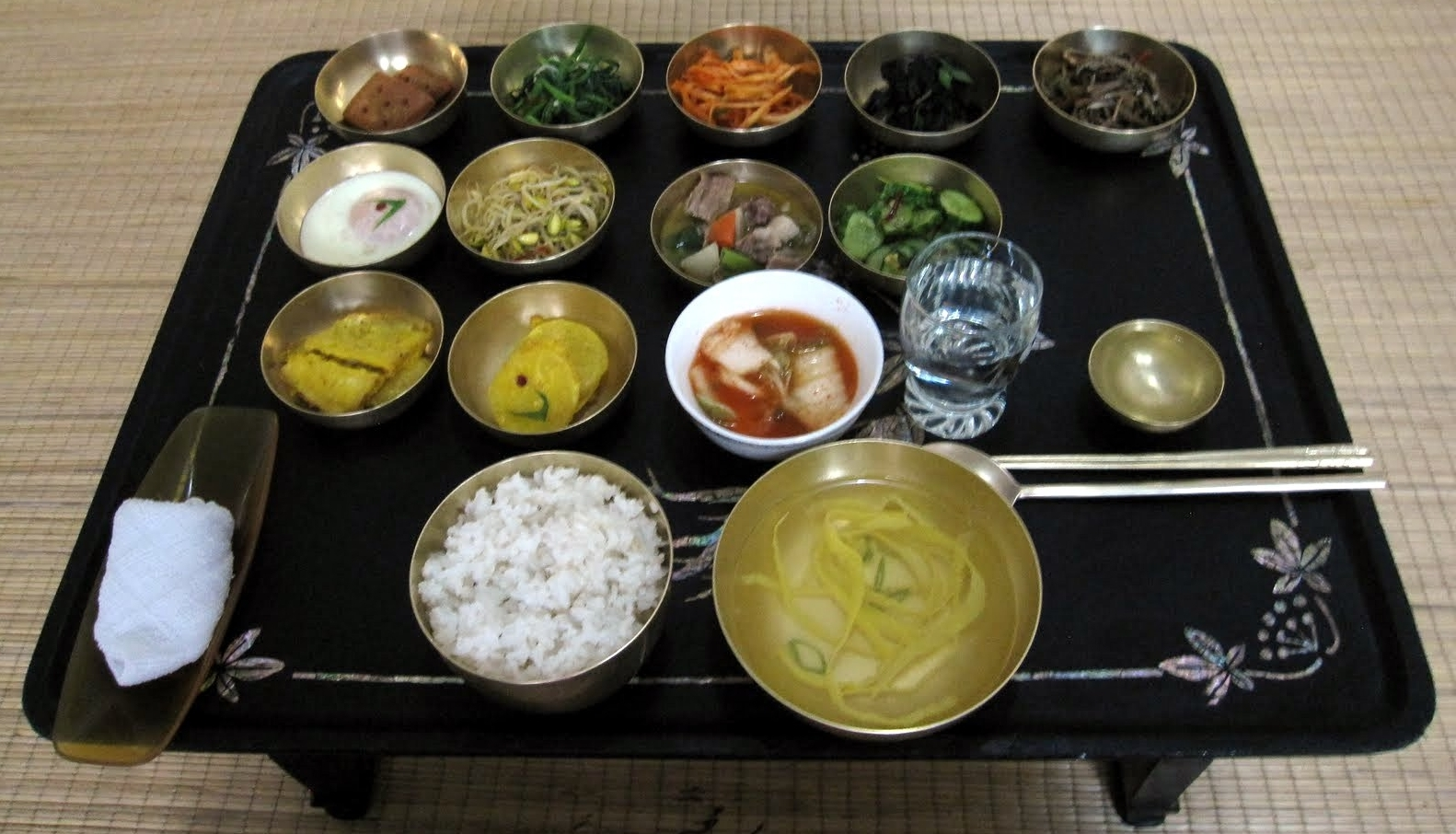 "Imperial Meal" of 9 dishes